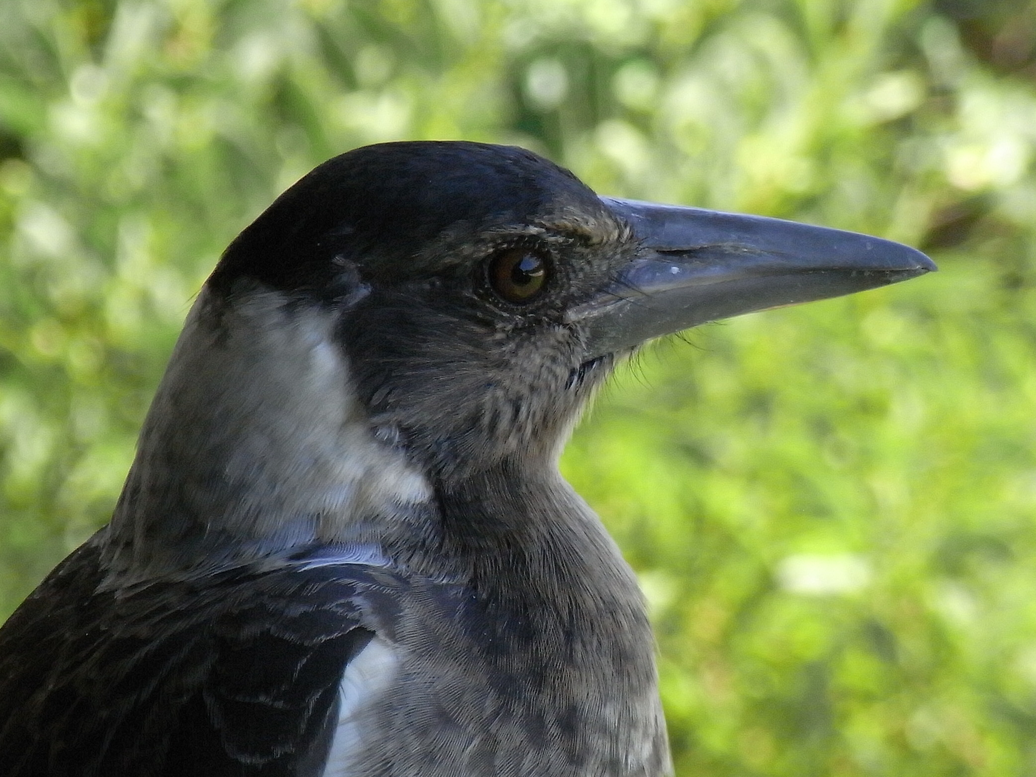 Australian Magpie ((Gymnorhina tibicen) at Iluka Bluff Picnic Area, New South Wales, Australia.